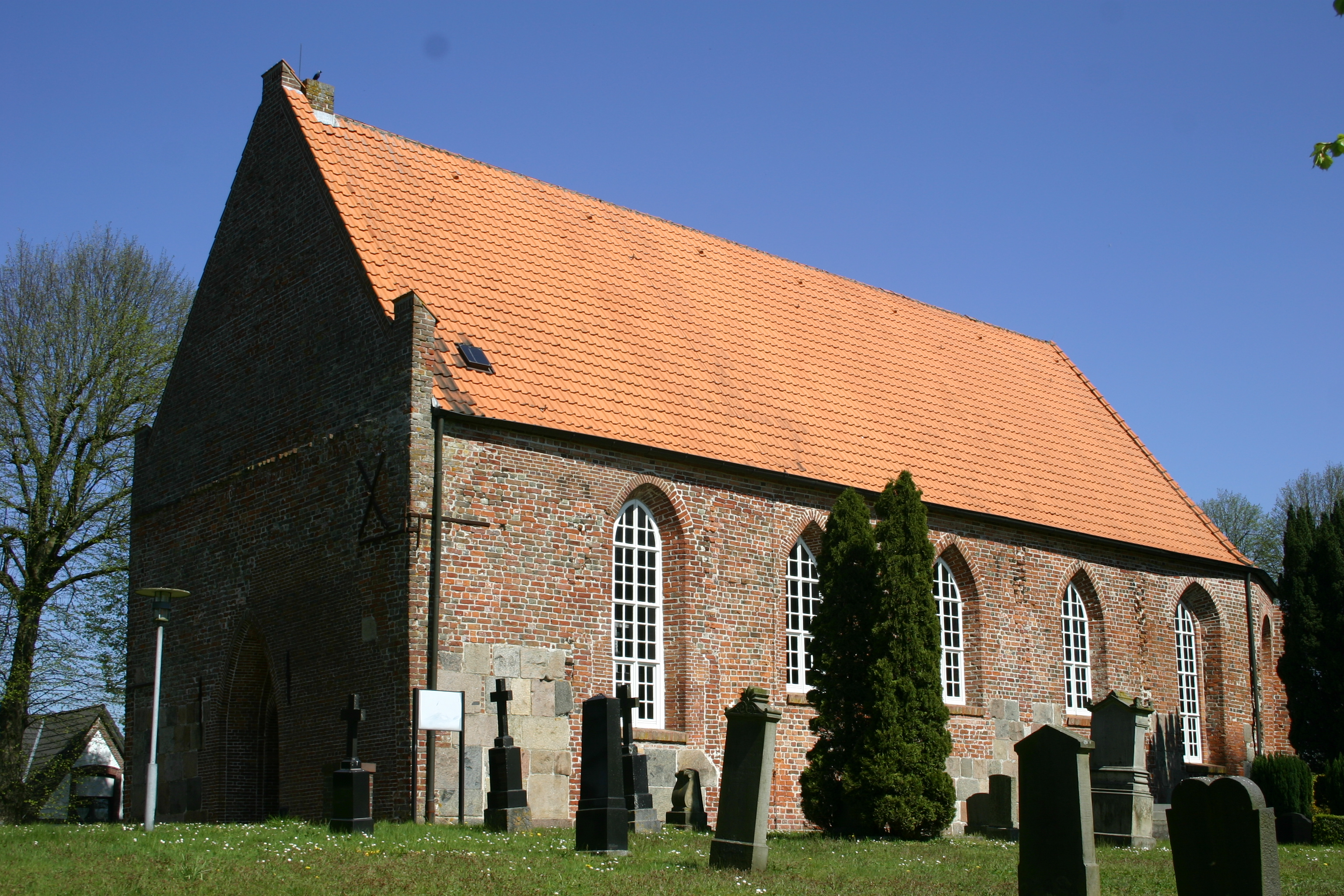 Historic church in Leerhafe, district of Wittmund, East Frisia, Germany